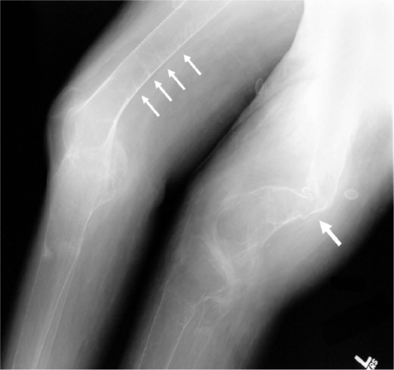 A radiograph of the distal femurs shows further evidence of badly malformed bones secondary to severe osteomalacia (large arrow), as well as several additional pseodofractures (small arrows).